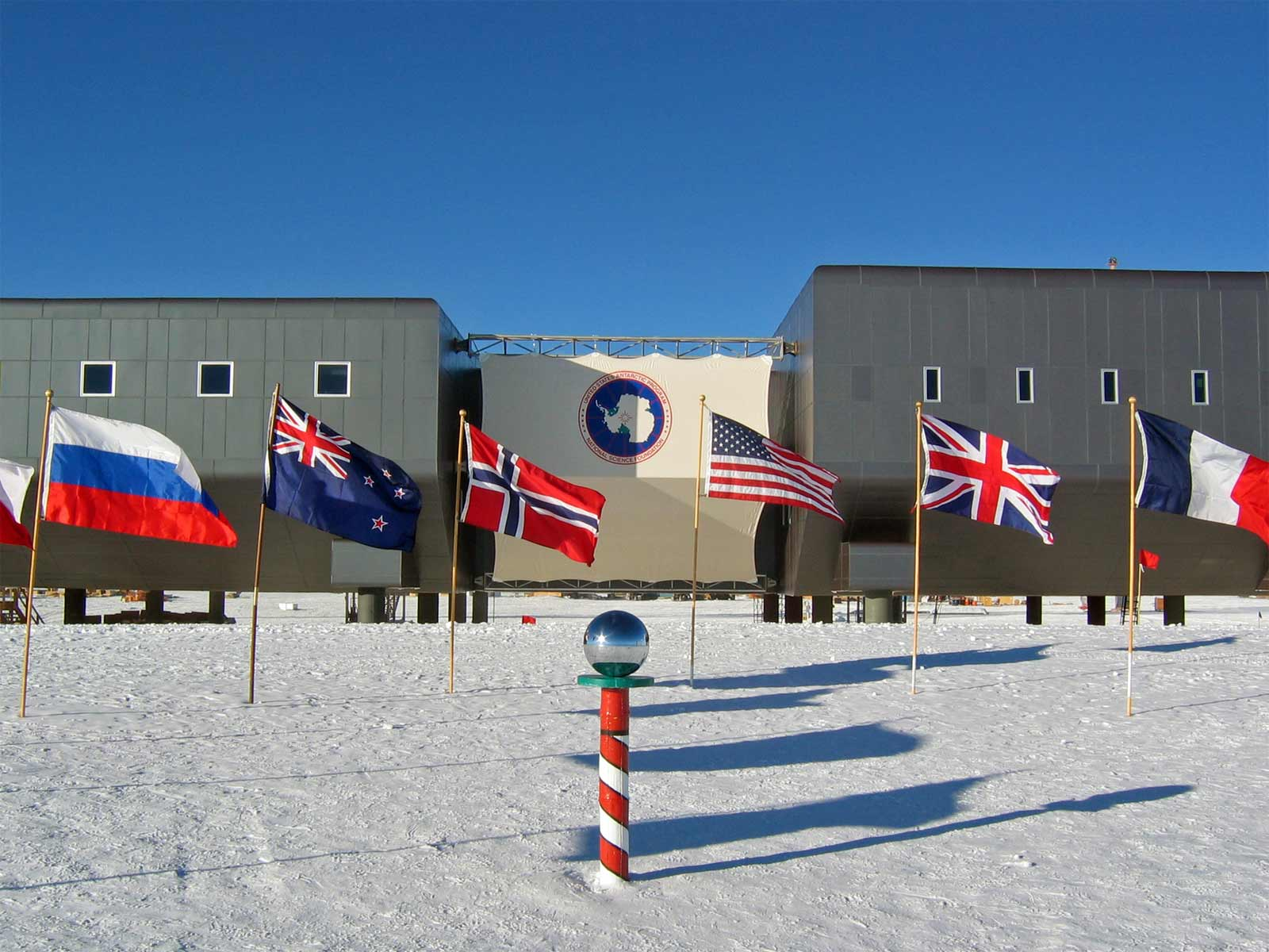 Amundsen-Scott South Pole Station in the 2007-2008 summer season. The new elevated Amundsen-Scott South Pole Station is now complete. In the foreground is the ceremonial South Pole and the flags for the original 12 signatory nations to Antarctic Treaty.